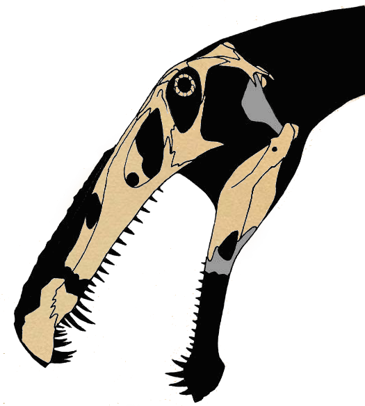 Skull reconstruction of Irritator challengeri.